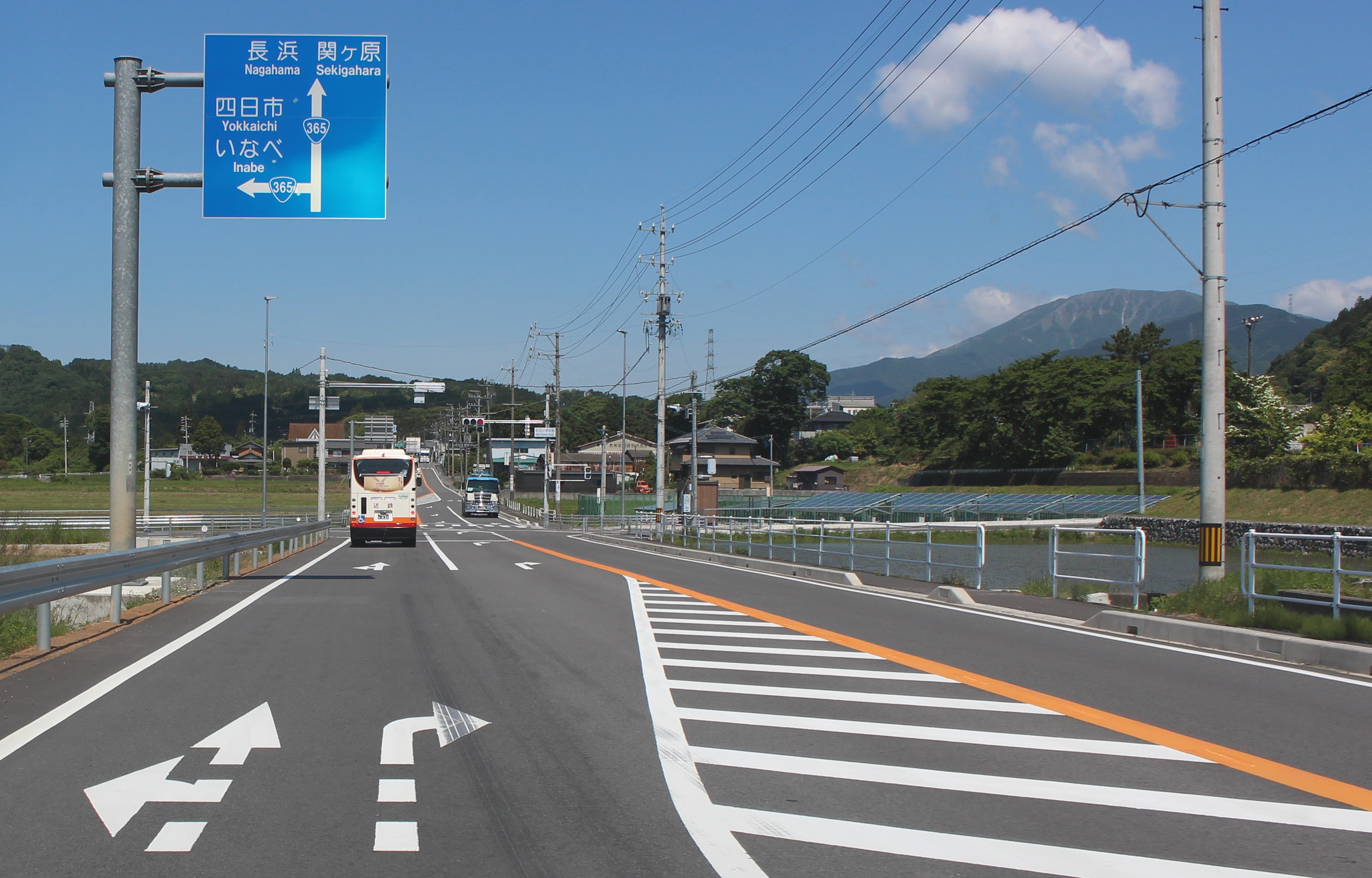 Gifu Prefectural Road Route 56 and Route 365 in Makida, Kamiishizucho, Ogaki, Gifu prefecture, Japan.